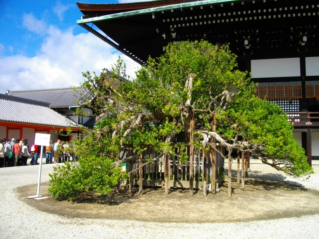 Ukon no Tachibana